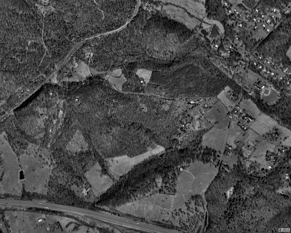 Aerial photo showing the community of Greenwood, Virginia. The post office is located at the road intersection in the middle right of the photo. Interstate 64 is visible at the bottom of the photo. The railroad cut that replaced the Greenwood Tunnel is visible in the middle left of the photo.